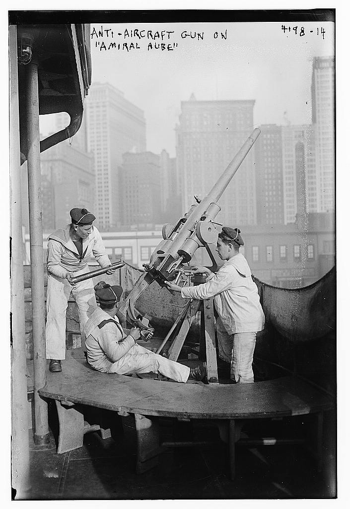 Photograph of gunners loading a light gun on French armoured cruiser Amiral Aube, in high-angle mode. Comment : This appears to be a Hotchkiss 47 mm gun ("3-pounder") on "elastic" mounting.